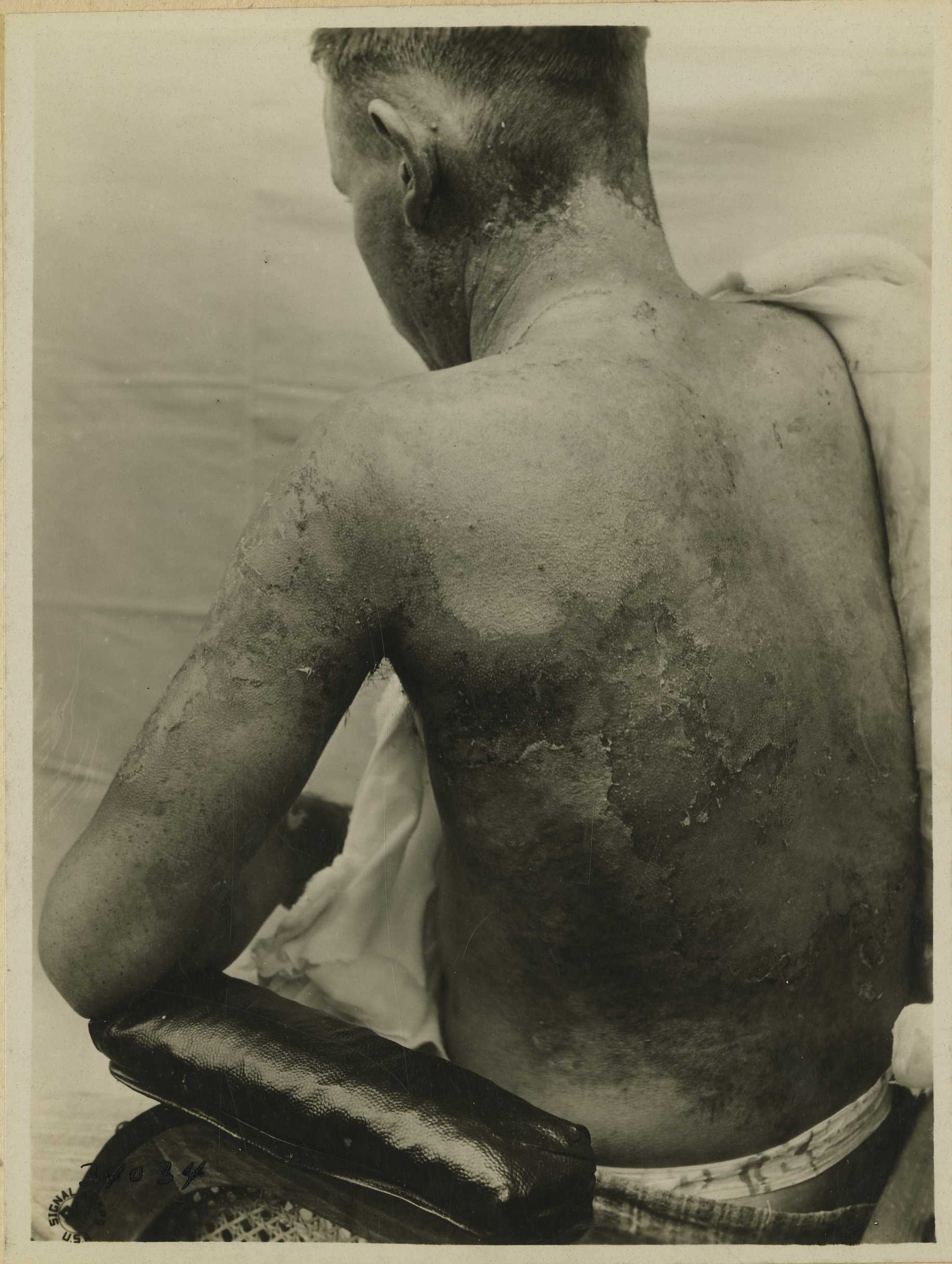 Soldier with mustard gas burns on his back and arm.